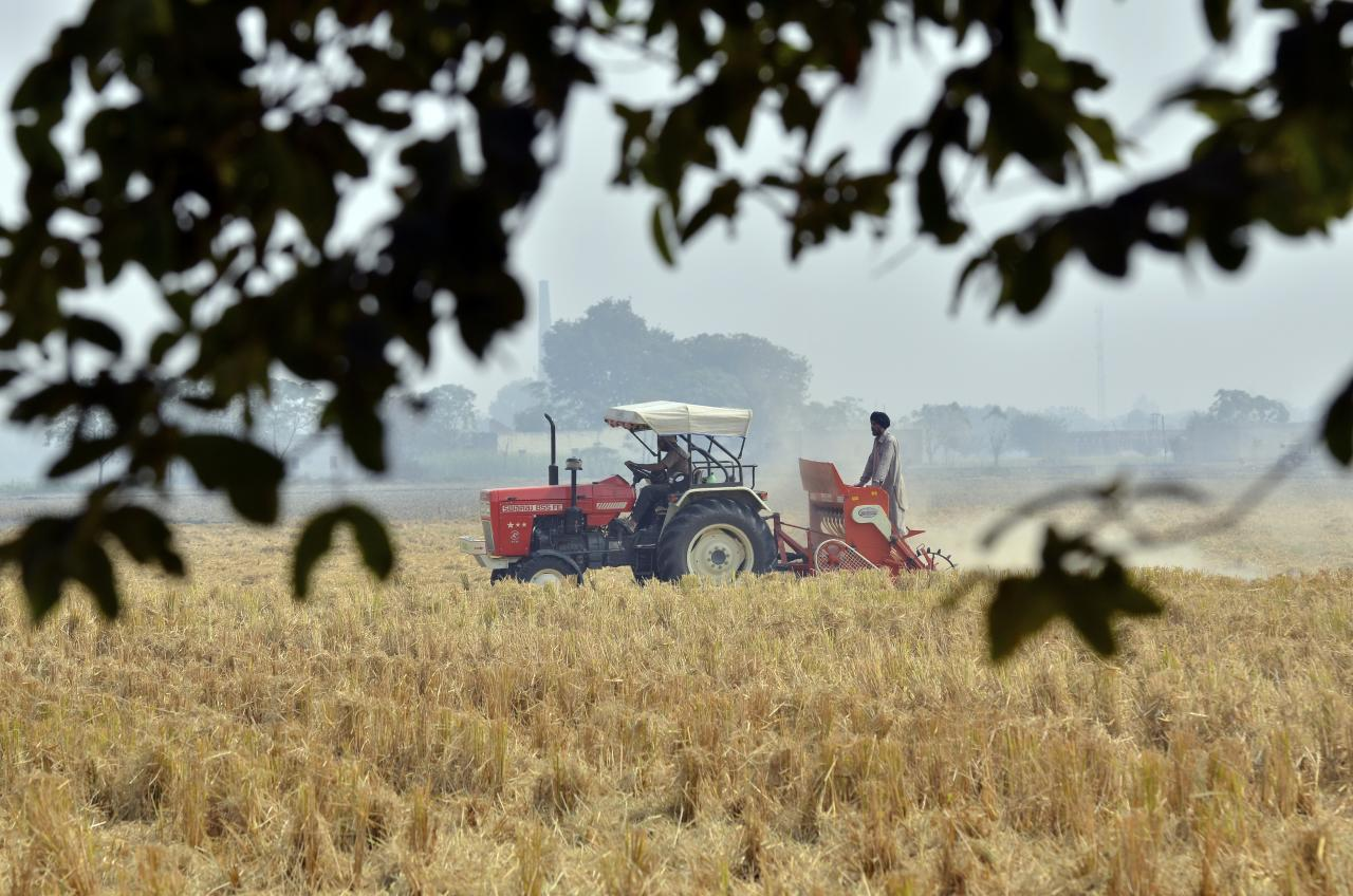 Agriculture in Punjab, Tractor in field, Field preparation Wheat farming in Punjab, India (CIAT). Wheat planting in a field of rice stubble, using the tractor-pulled Happy Seeder, which eliminates the need to burn crop stalk residues after harvest. Near Sangrur, SE Punjab, India. Source